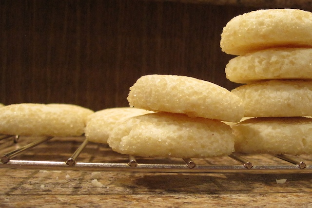 Shortbread Cookies, aka "Butter Delivery System".